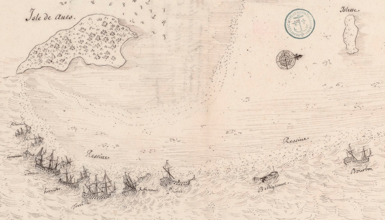 General view of the sinking of the French squadron of Vice Admiral Jean d'Estrées in May 1678 on the Aves Islands (near present-day Venezuela). Size of the plan: 23,5 x 40 cm.